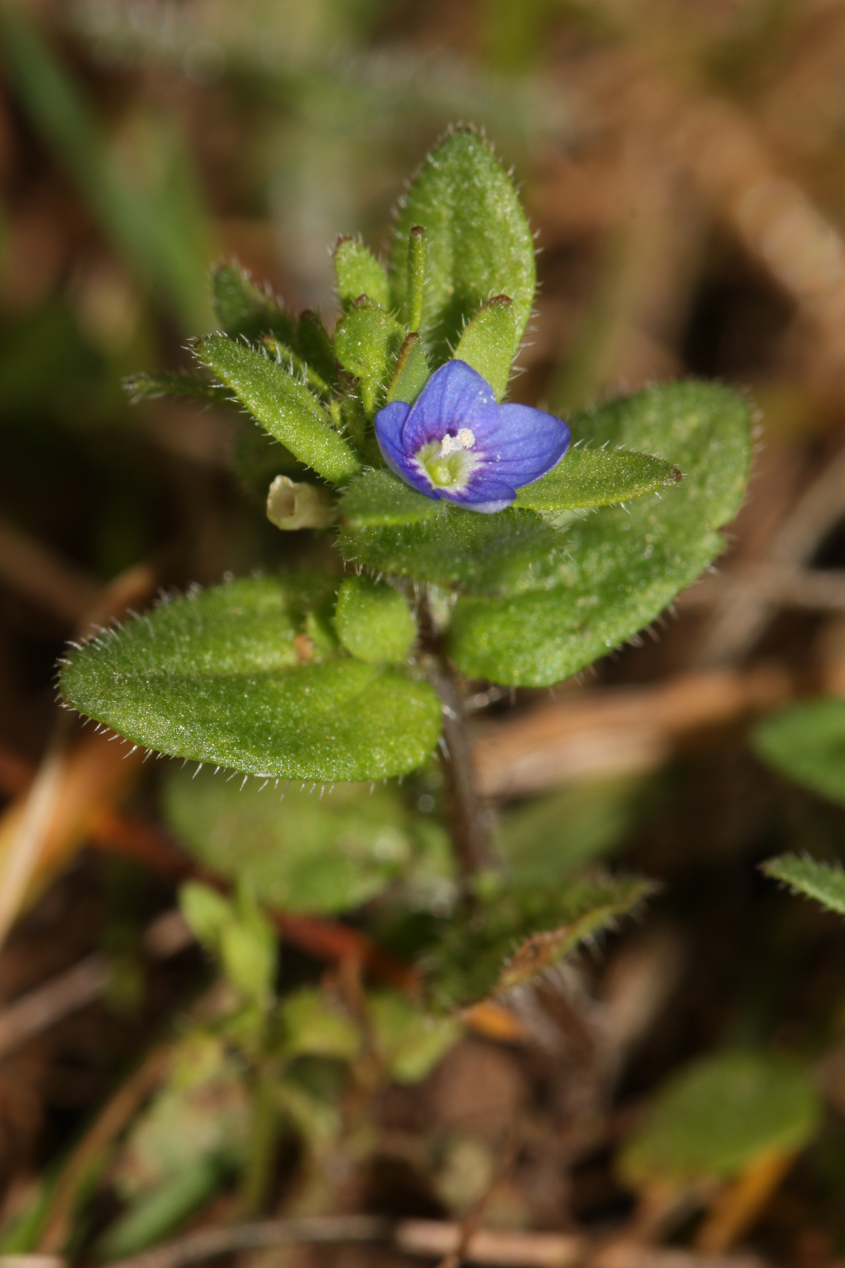 Corn Speedwell, Wall Speedwell; flower is 2 to 3 mm in diameter; leaves are 1.5 to 2.5 cm long Viewpoint location: Catherine Creek Trail (north of road), Catherine Creek Day Use Area Viewpoint elevation: 105 meter (345 ft) Location source: Garmin GPSmap 60CSx Location Datum: WGS84